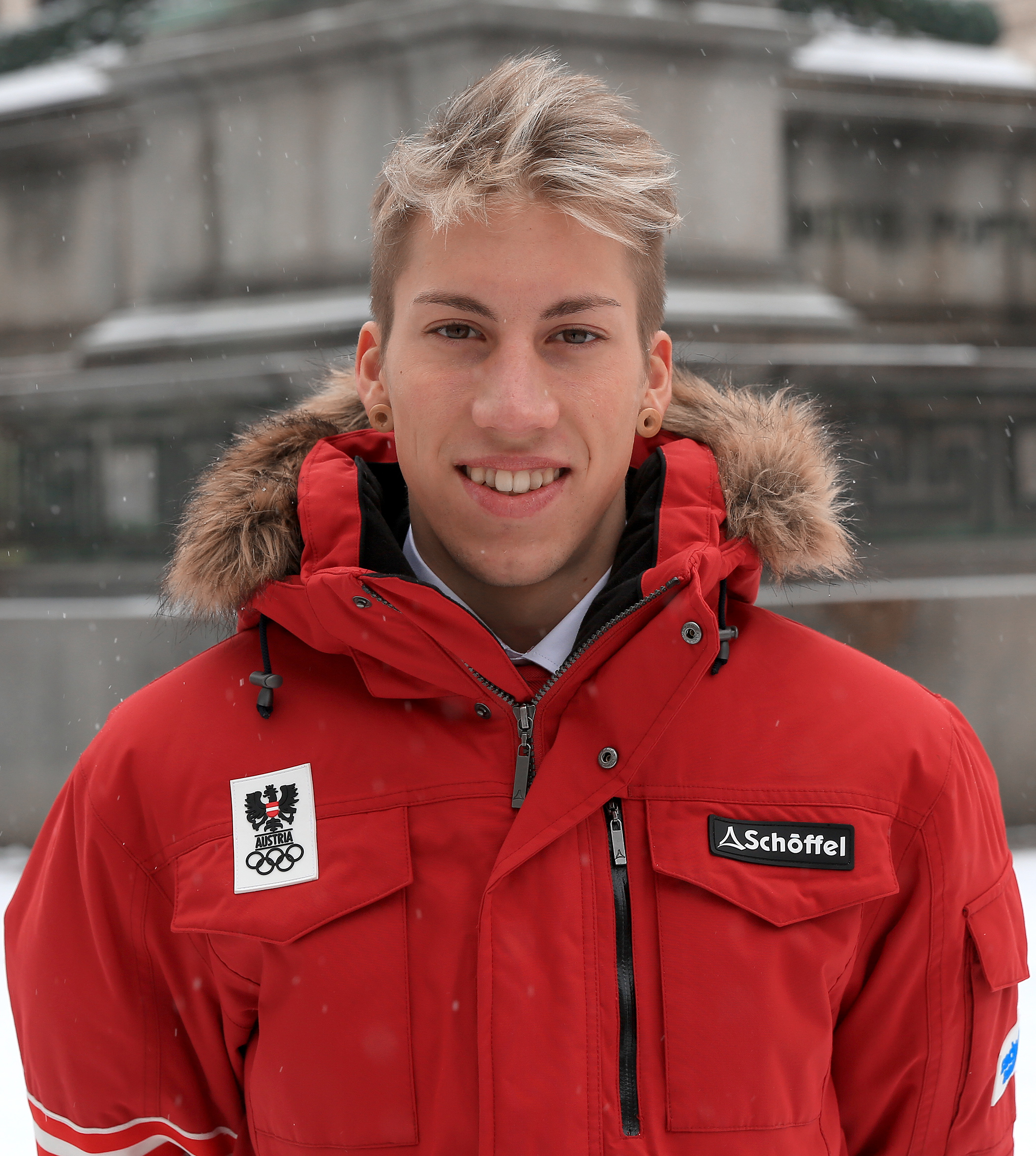 Athletes of the Austrian team for the 2014 Winter Olympics - ski jumping: Thomas Diethart before the reception by Federal President Heinz Fischer at Hofburg Palace in Vienna, Austria.